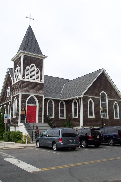 Parking lot view of St. Paul's by-the-sea Protestant Episcopal Church, located at 302 N. Baltimore Street in Ocean City, Maryland, United States. Built in 1900, the Gothic Revival church is listed on the National Register of Historic Places. Church website.